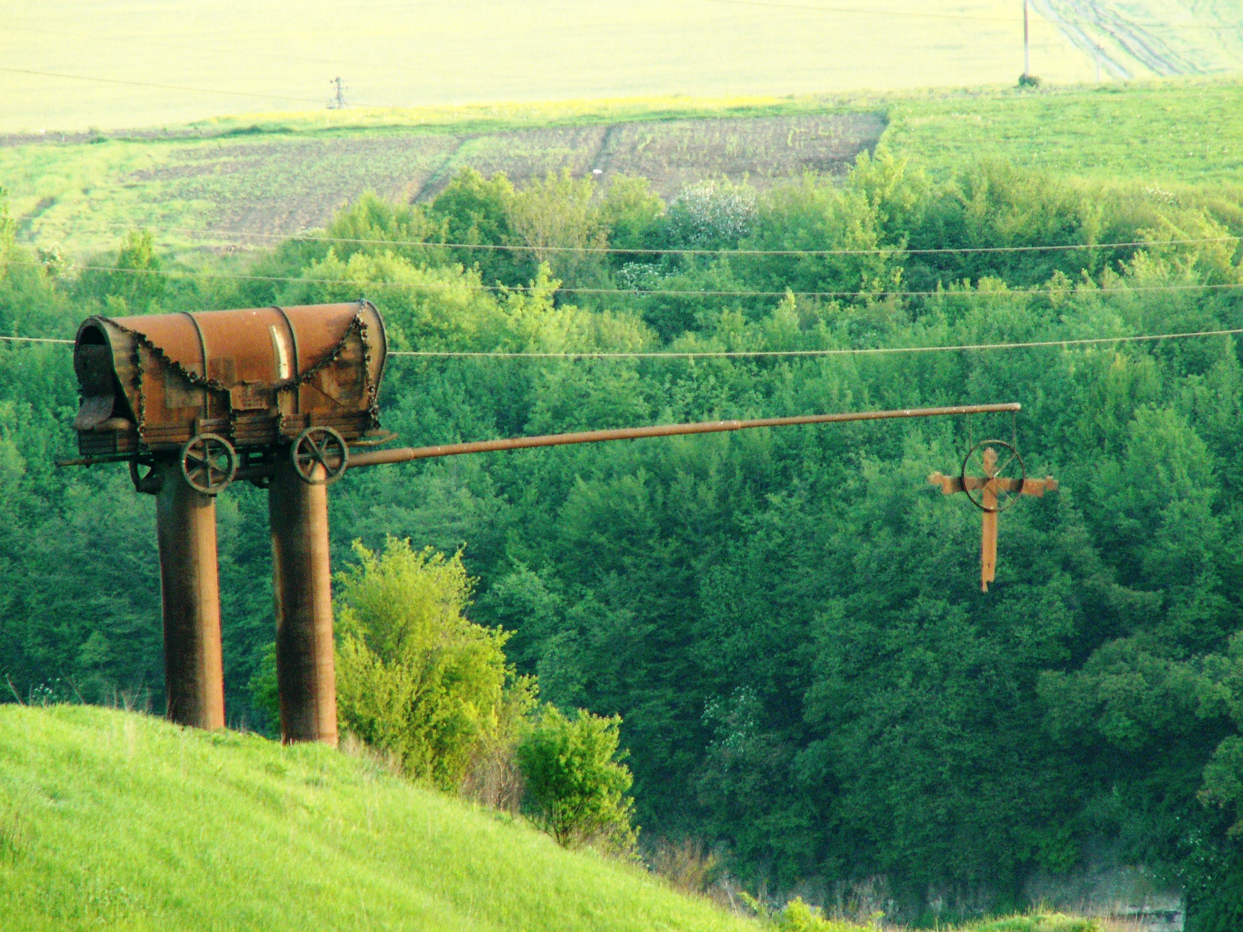 Kamyanets_Podilsky, Kibitka